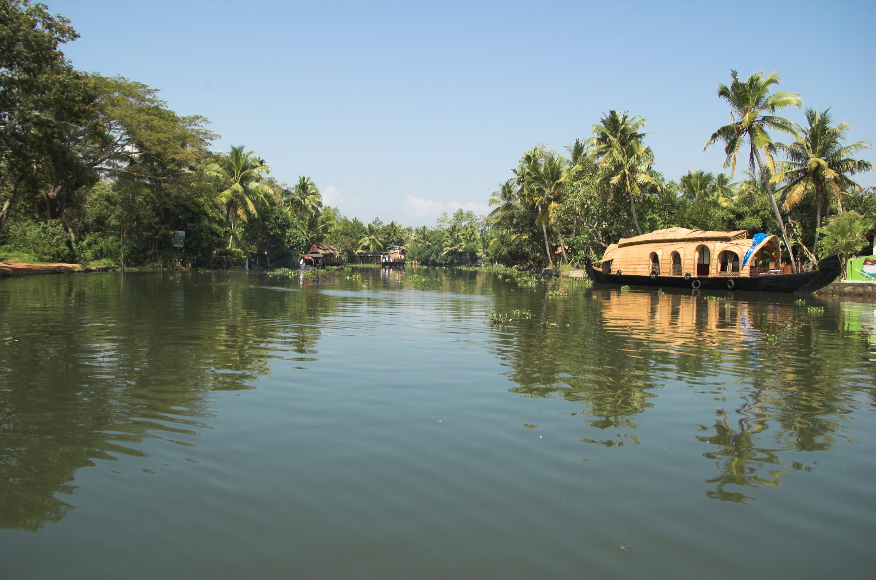 This is a picture of the Backwaters of Kumarakom, Kerala. This picture was taken my be and is release under GFDL. Author: Lenish Namath